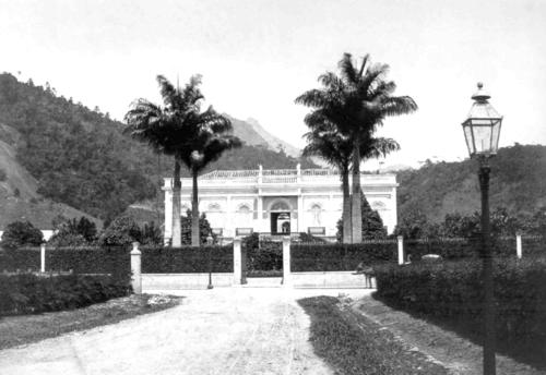 Palace Isabel, official residence of Princess Isabel and comte d'Eu in Rio de Janeiro, Brazil.